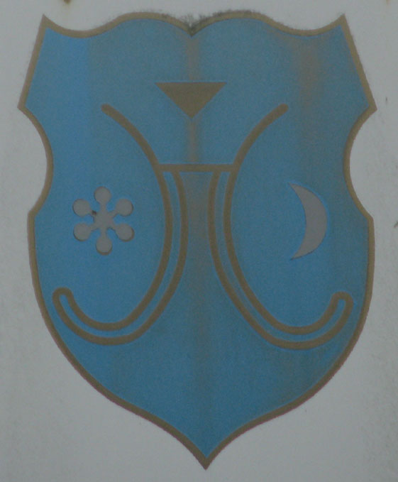 CoA of the Municipality of Draganić, Karlovac County